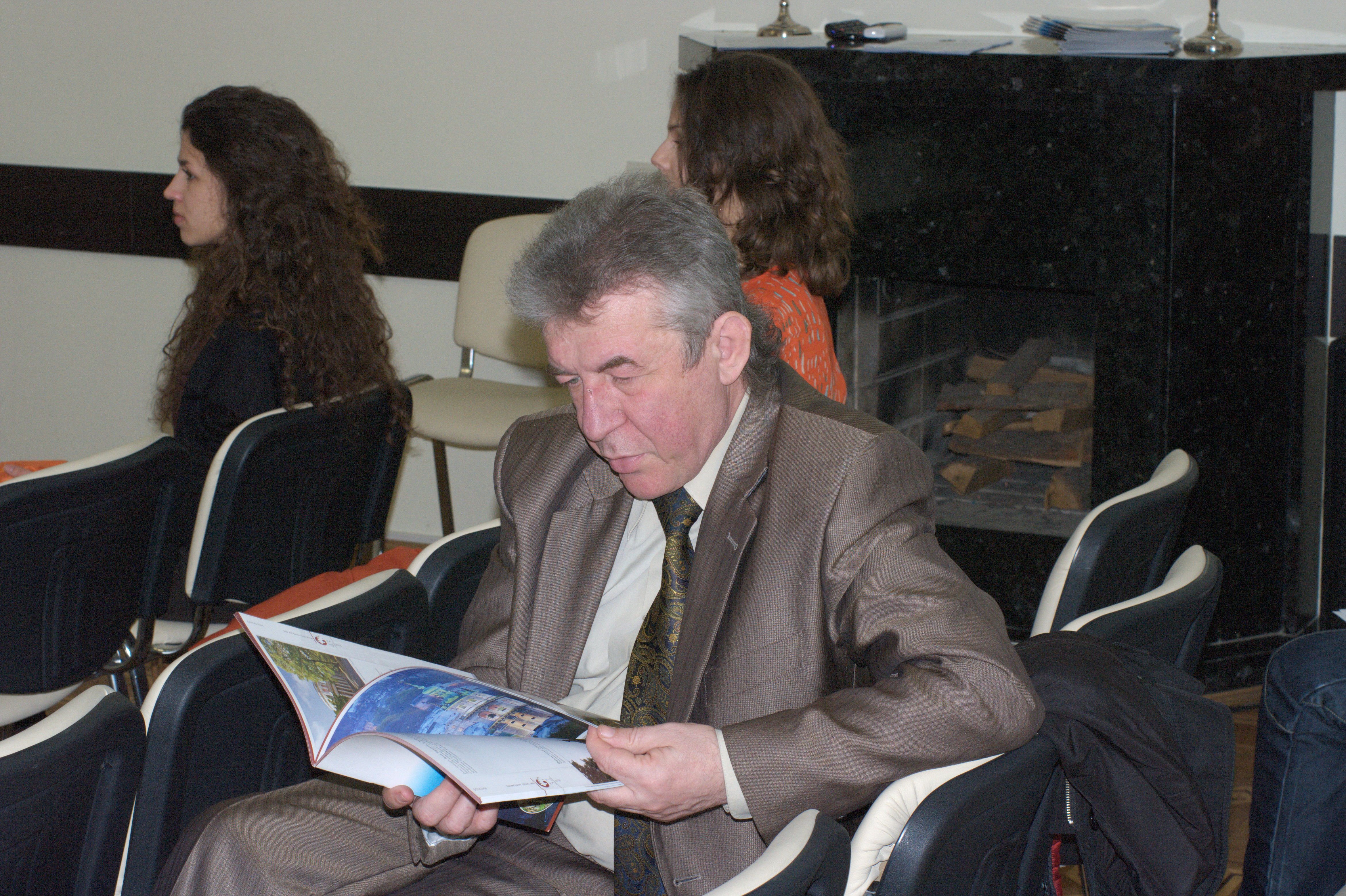 Wiki Loves Earth 2013 presentation conference